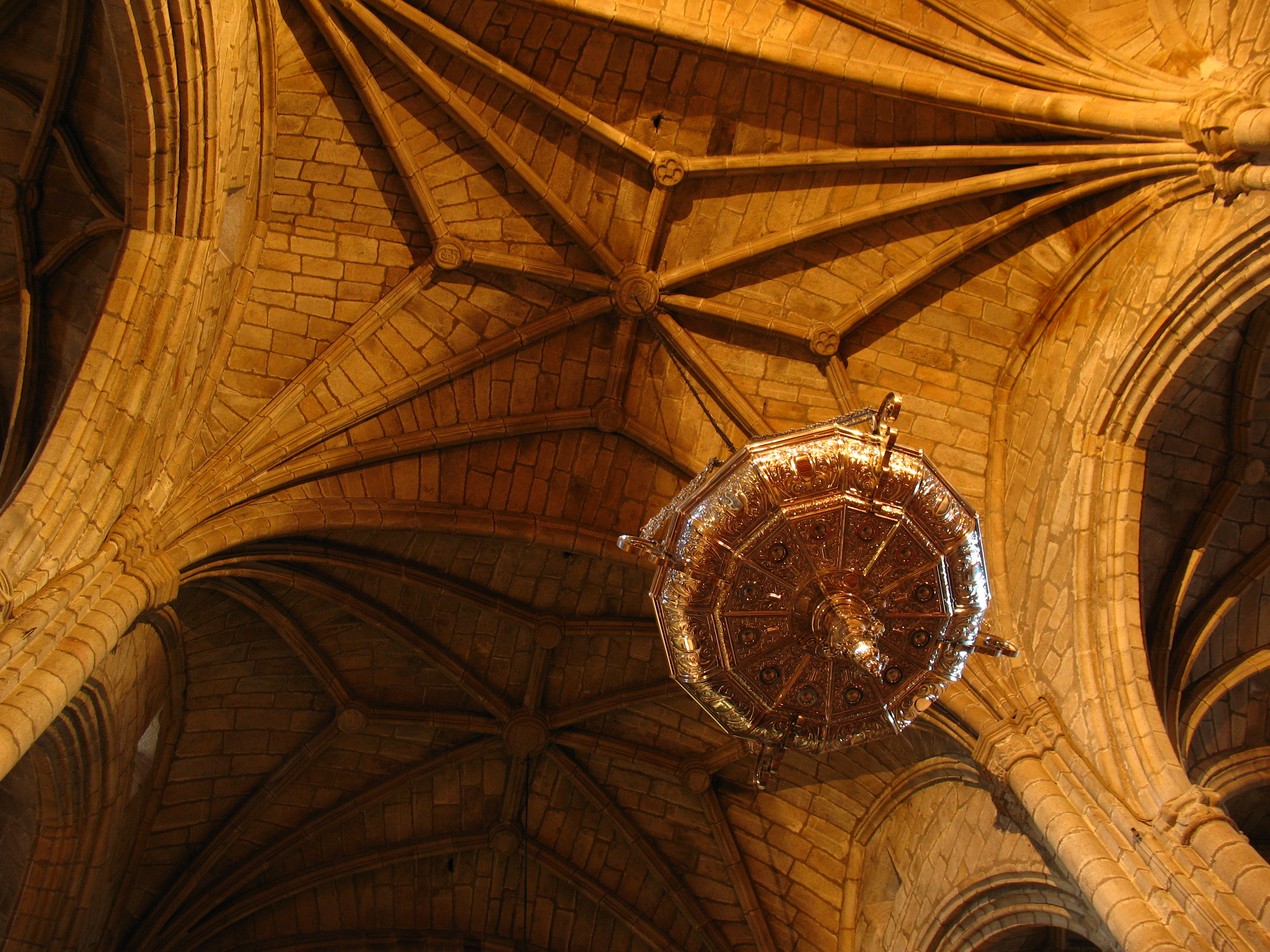 Gothic rib vault in the Iglesia Concatedral de Santa María, Cáceres, Spain.